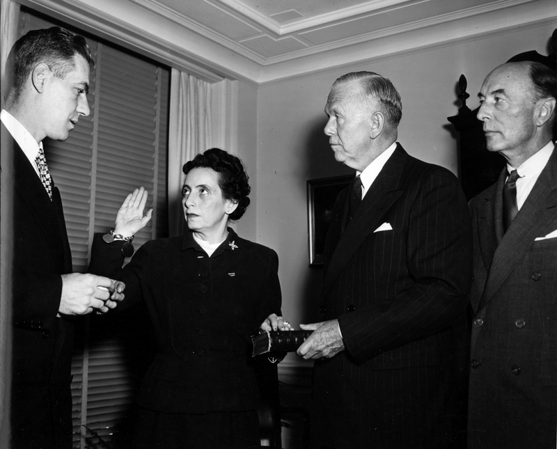 Anna M. Rosenberg is pictured being sworn in as Assistant Secretary of Defense in this photo. Doing the honors is Felix Larkin (left) General Counsel of the Department of Defense. Also participating in the ceremony are General George C. Marshall (second from right), and Robert A. Lovett, (right), Deputy Secretary of Defense.